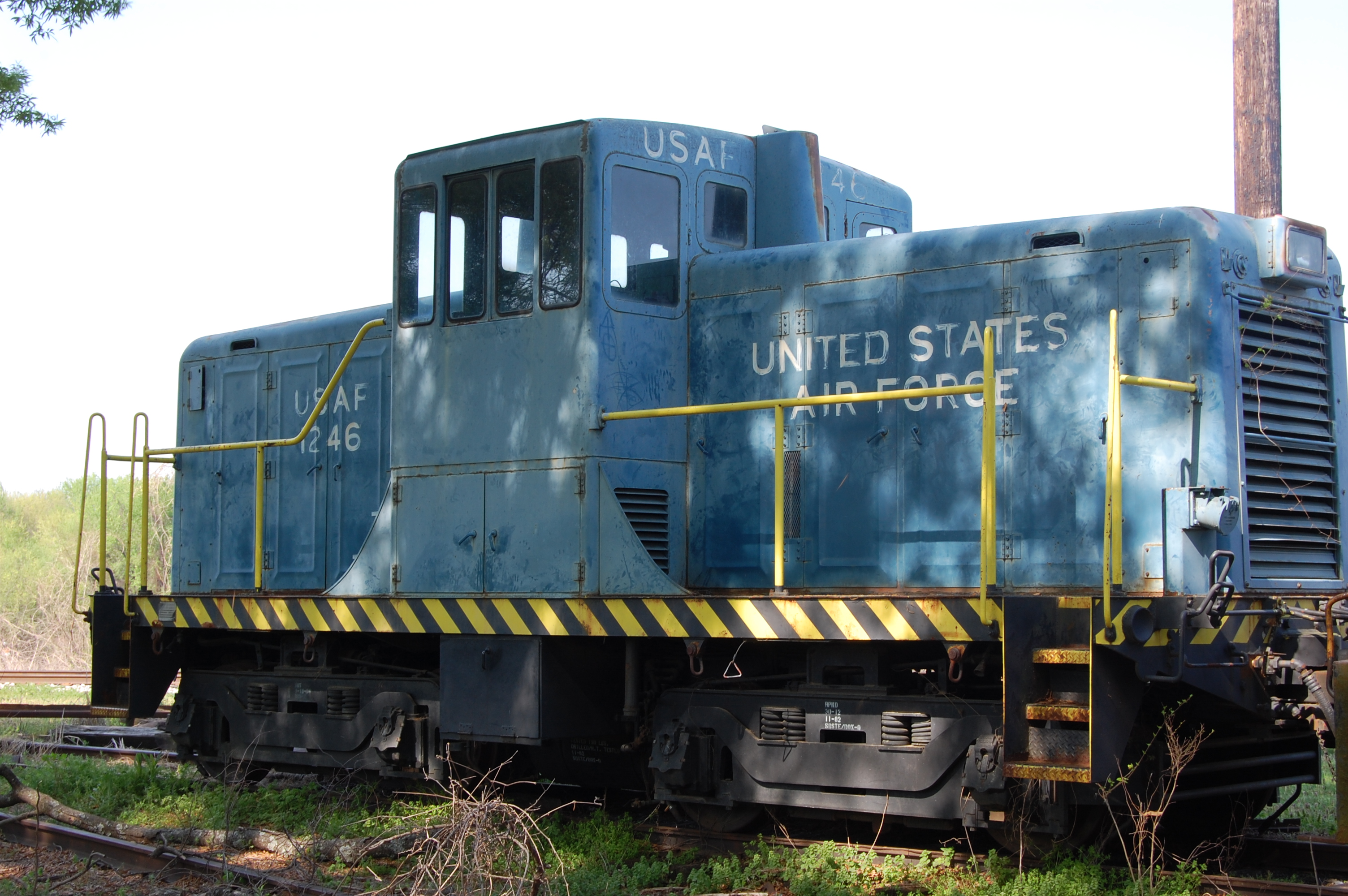 US Air Force Locomotive No. 1246, a diesel-electric railyard switching locomotive built in 1953 by General Electric, now residing at the Fort Smith Trolley Museum. It was added to the US National Register of Historic Places in 2006.